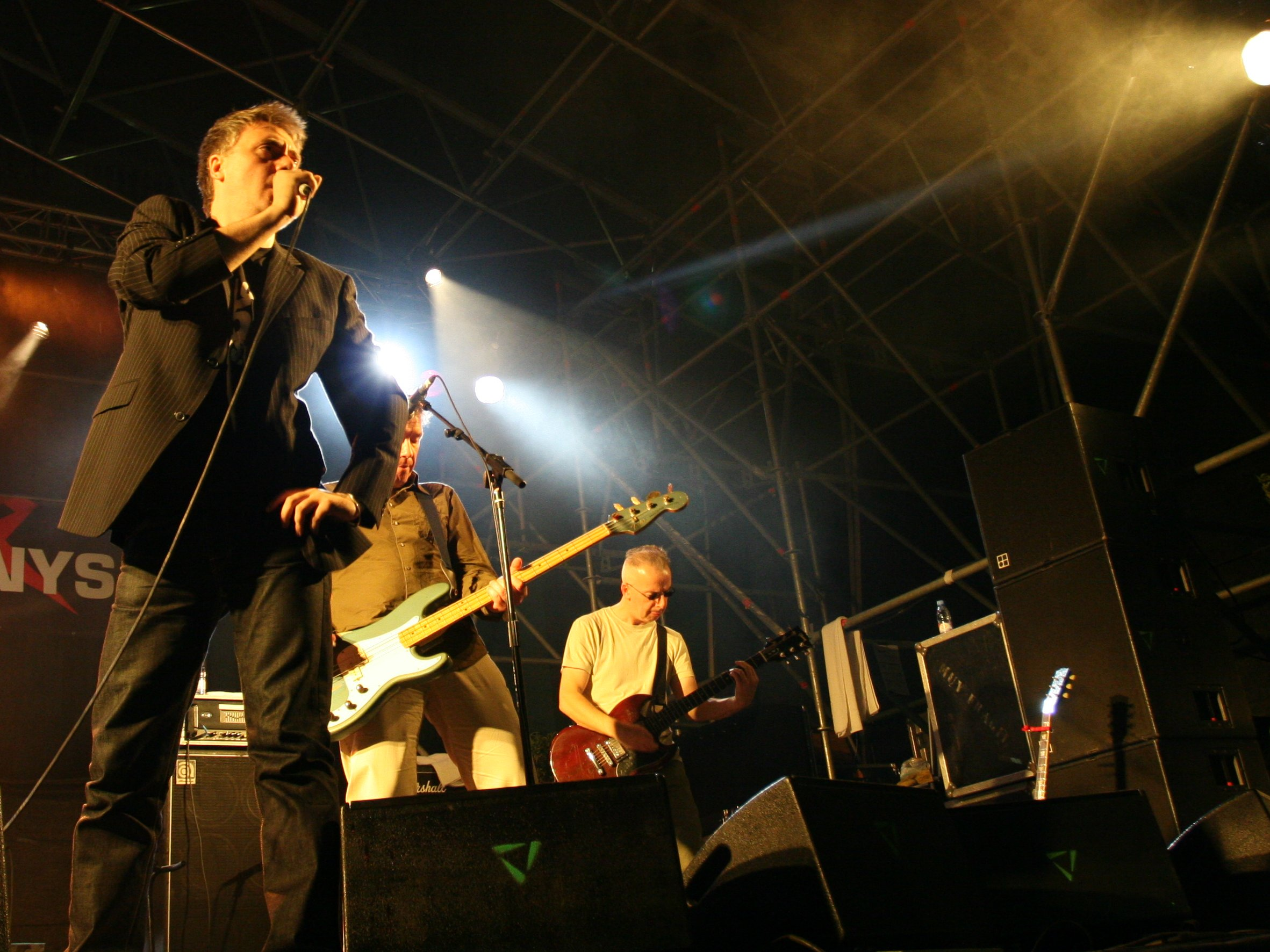 An image of The Undertones live on stage in September, 2007.